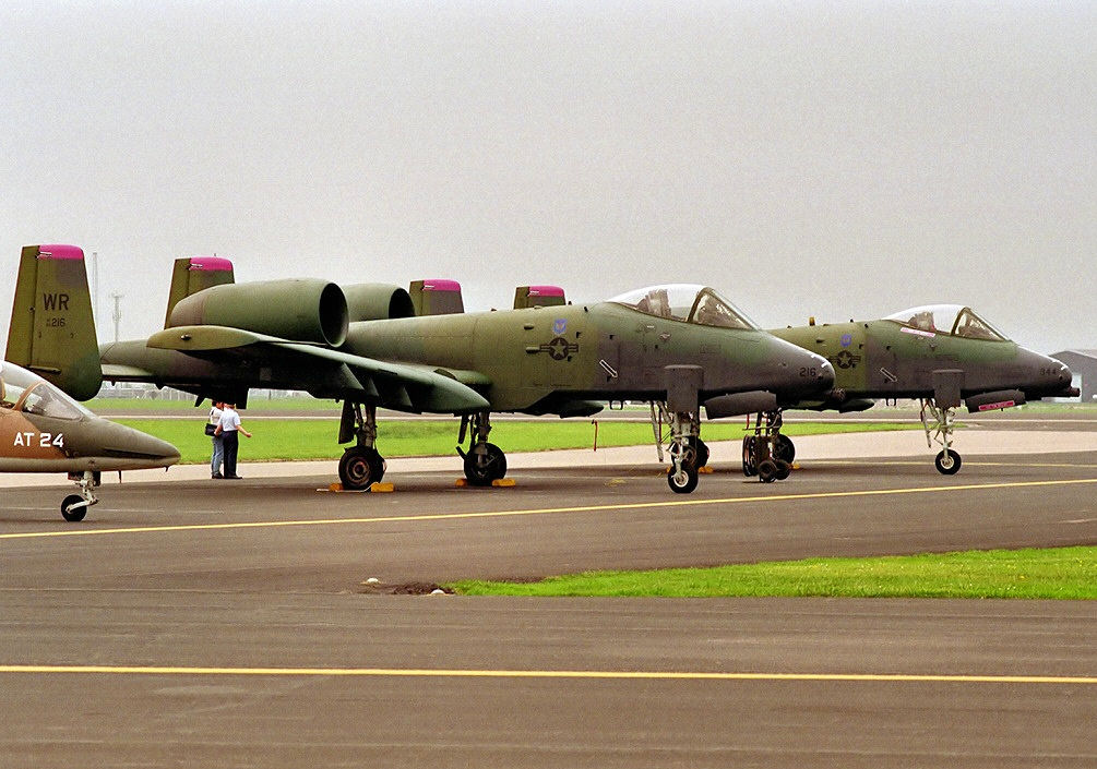 78th Tactical Fighter Squadron - Fairchild Republic A-10A Thunderbolt II - 80-0216